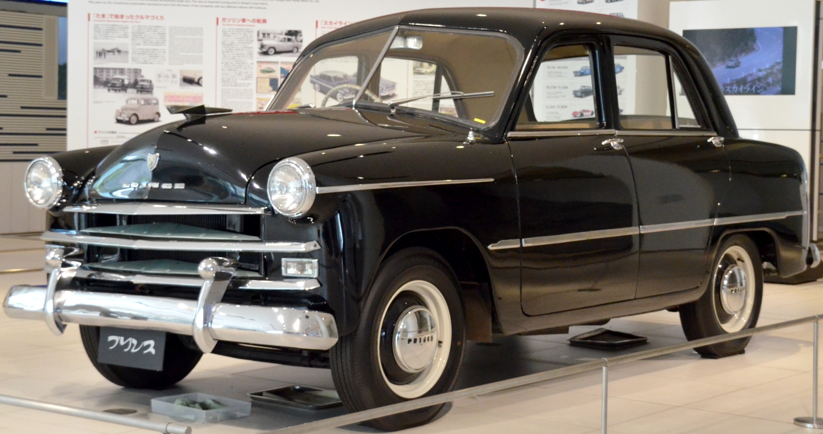 Prince Sedan Deluxe AISH-II